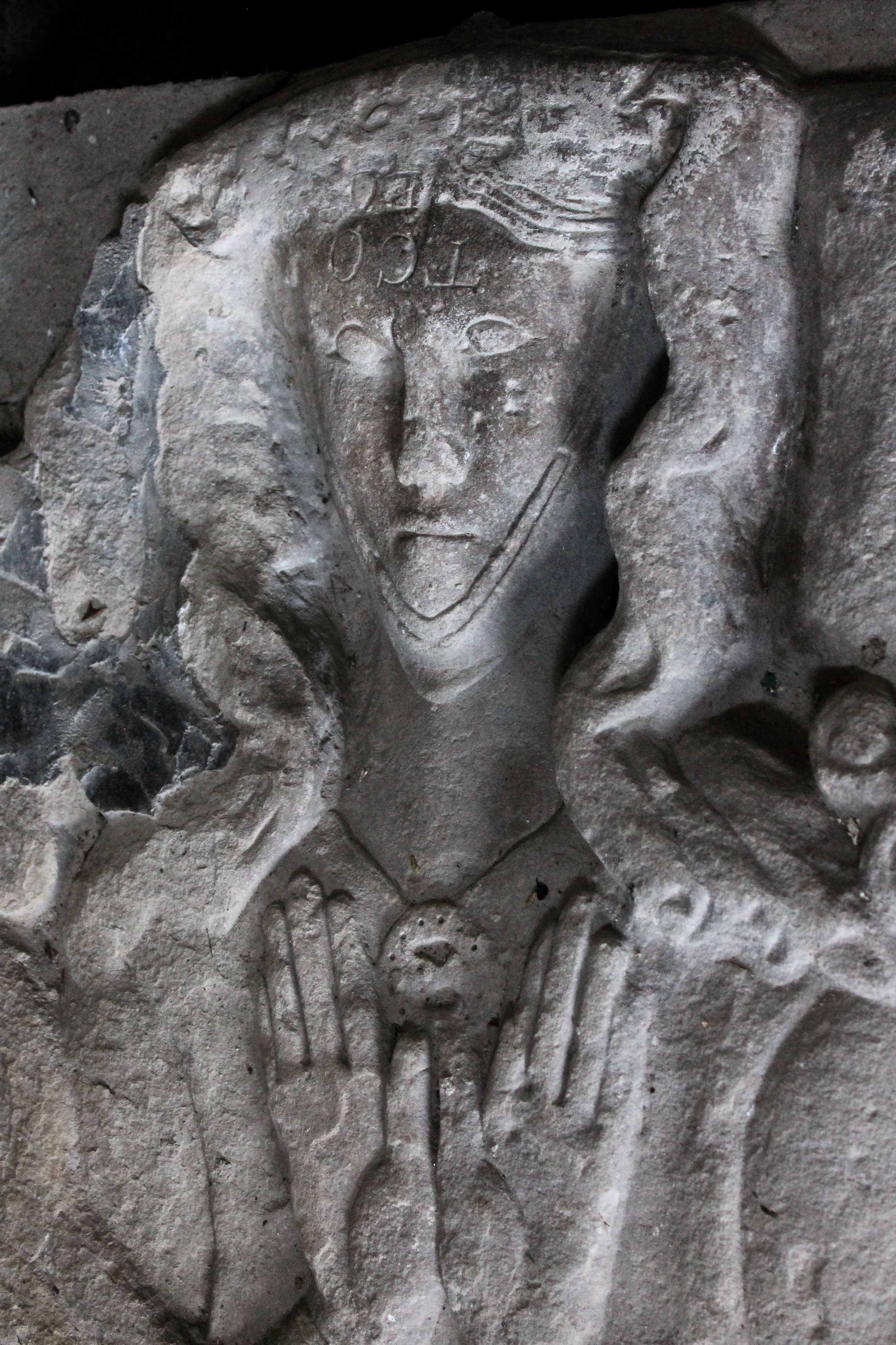 Church of St Mary and St Nicholas, Beaumaris, North Wales. Grade: I; Date Listed: 23 September 1950; Cadw Building ID: 5620.